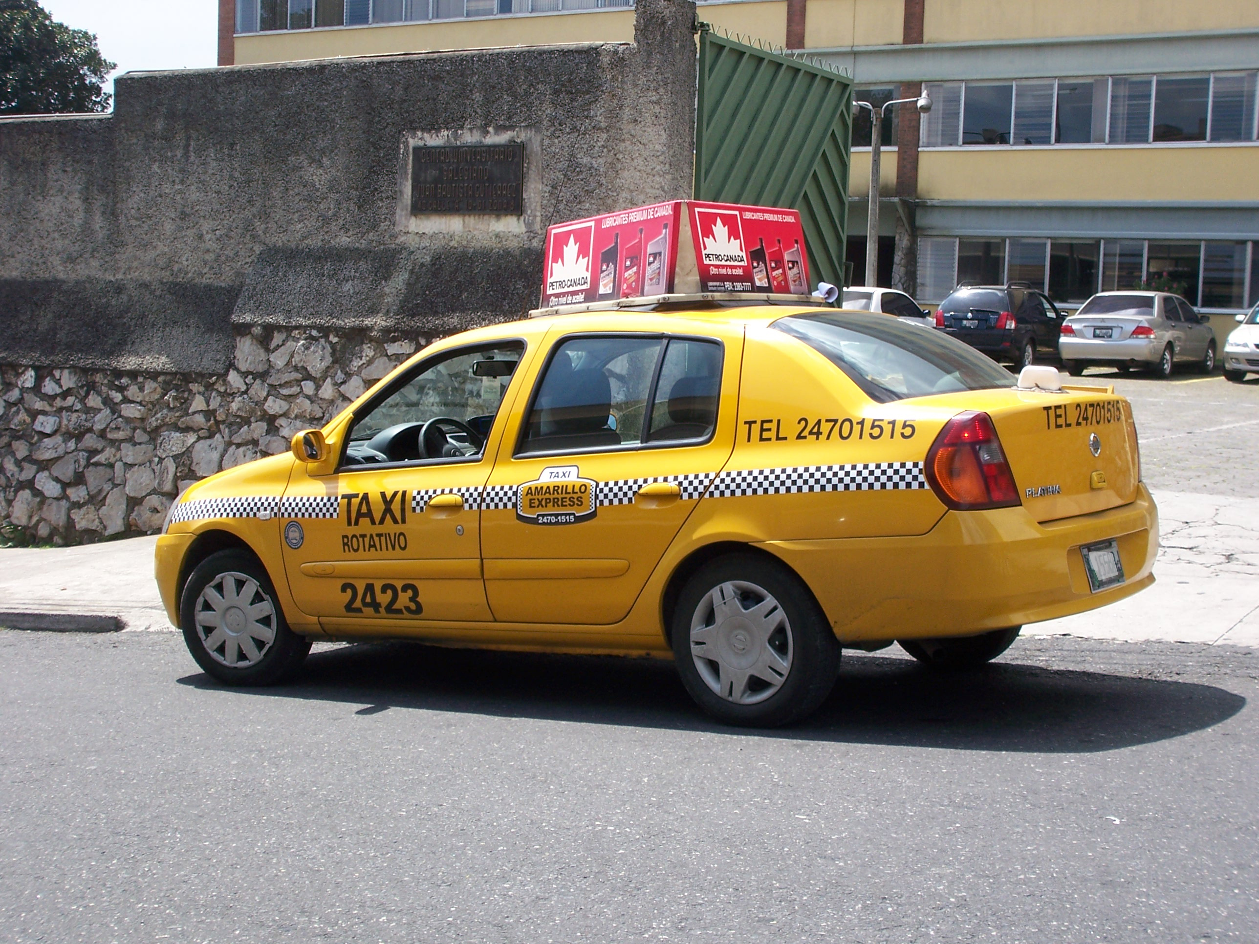 Nissan Platina as taxi in Guatemala City